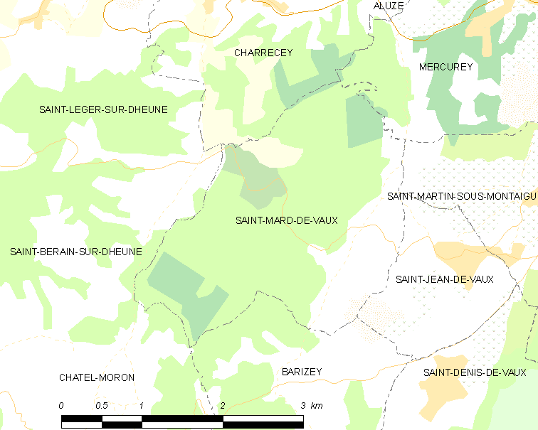 Map of French municipality